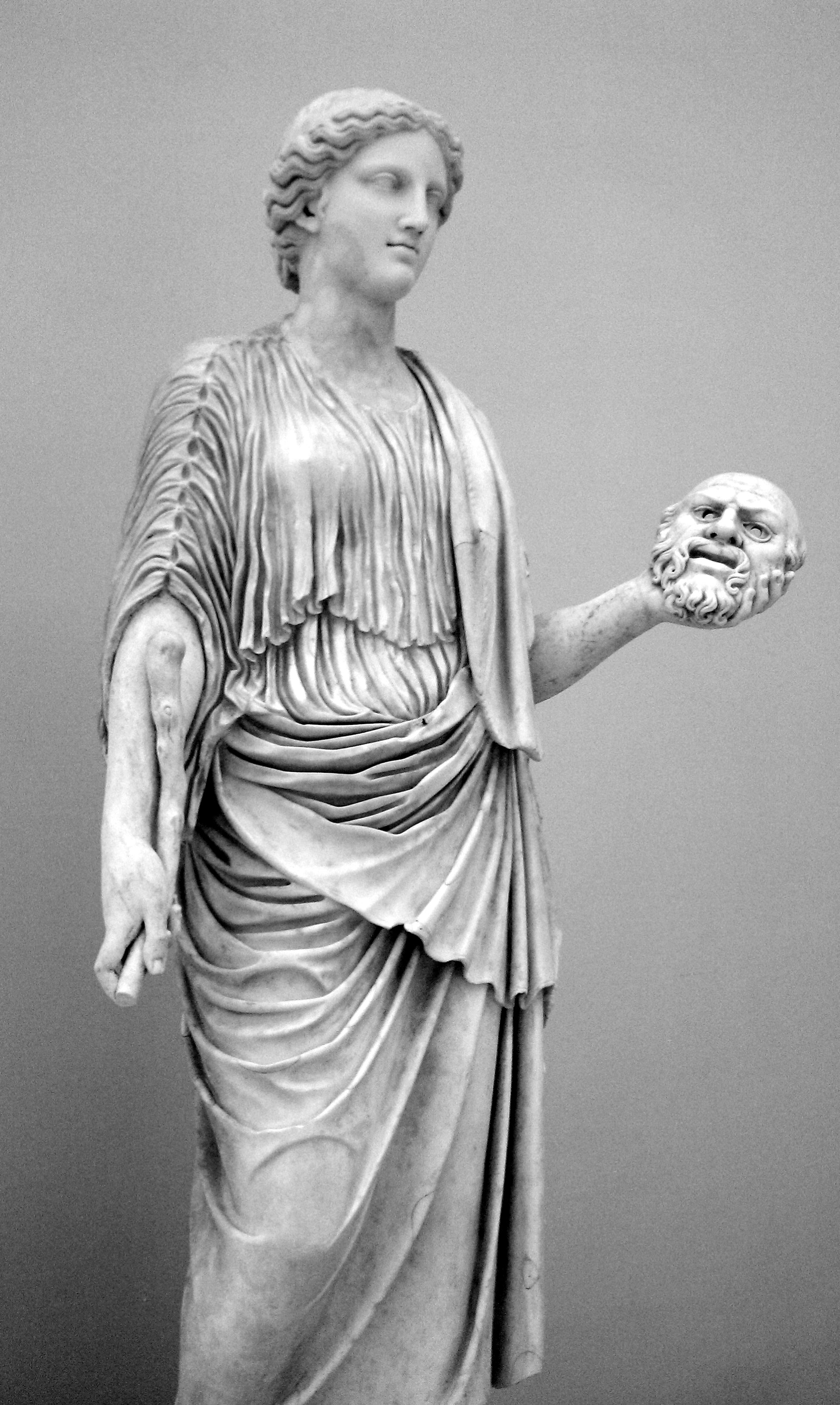 Female deity (Kore of Eleusis type), restored as a muse. Late 2nd C copy of a Greek original of the 2nd half of the 5th C BC.